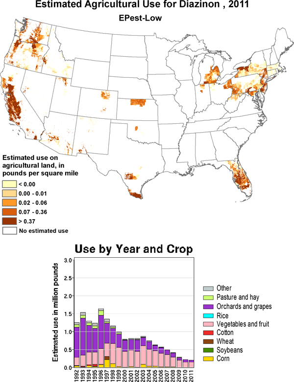 Diazinon map of use, USA, 2011 (estimated)